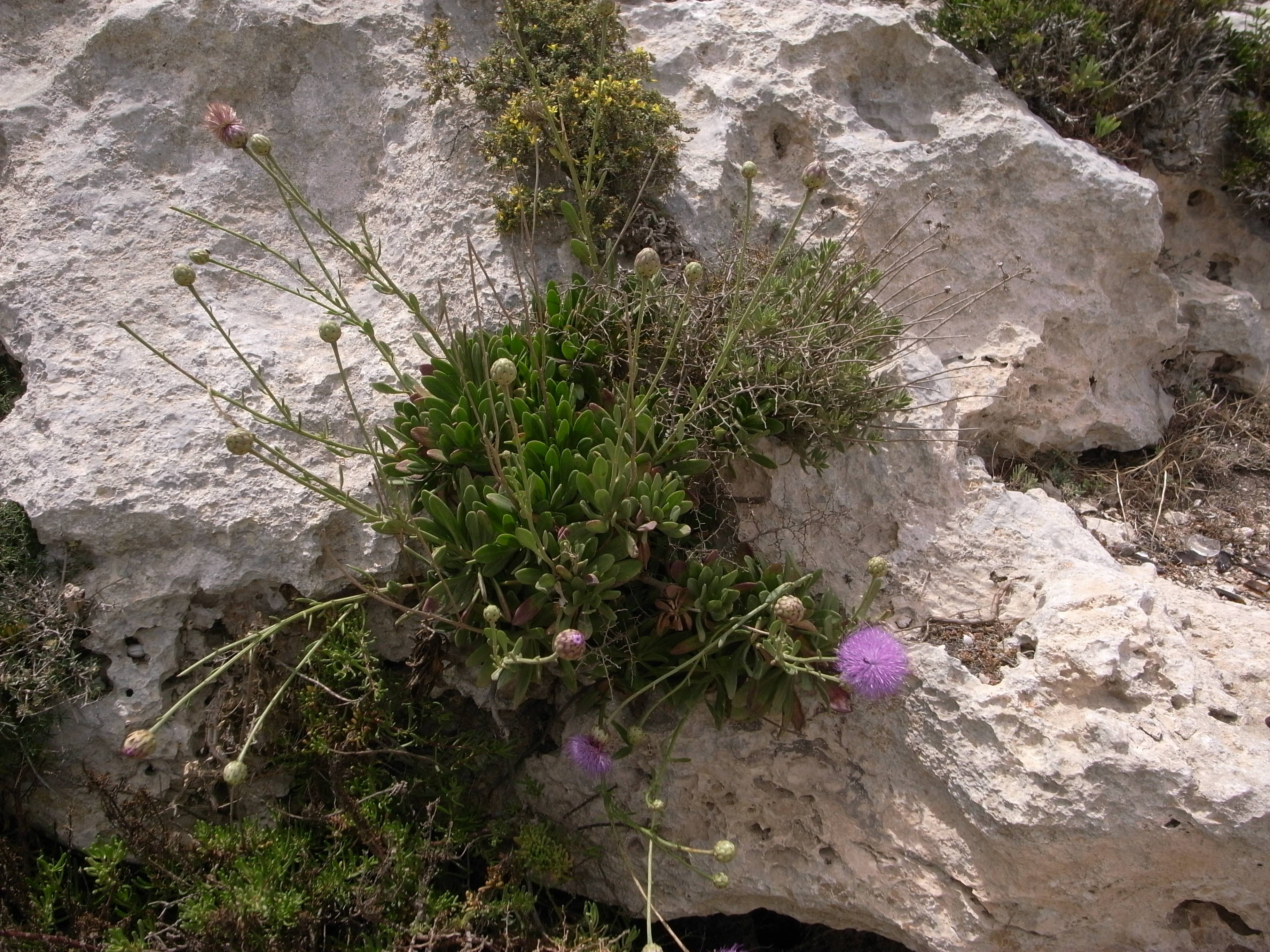 Cheirolophus crassifolius, Malta Thanks to Stephen Mifsud Flowering plant